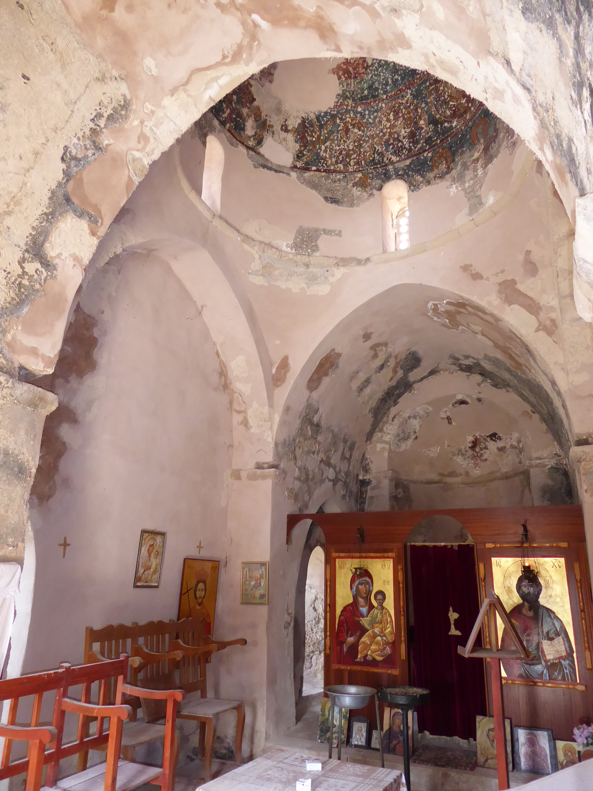 Panagia Chorteni, Pelathousa